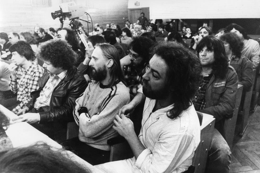 From left to right: János Bródy, Mátyás Várkonyi, László Benkő, György Molnár. Zorán Sztevanovity, Gábor Presser, László Földes (Hobo)